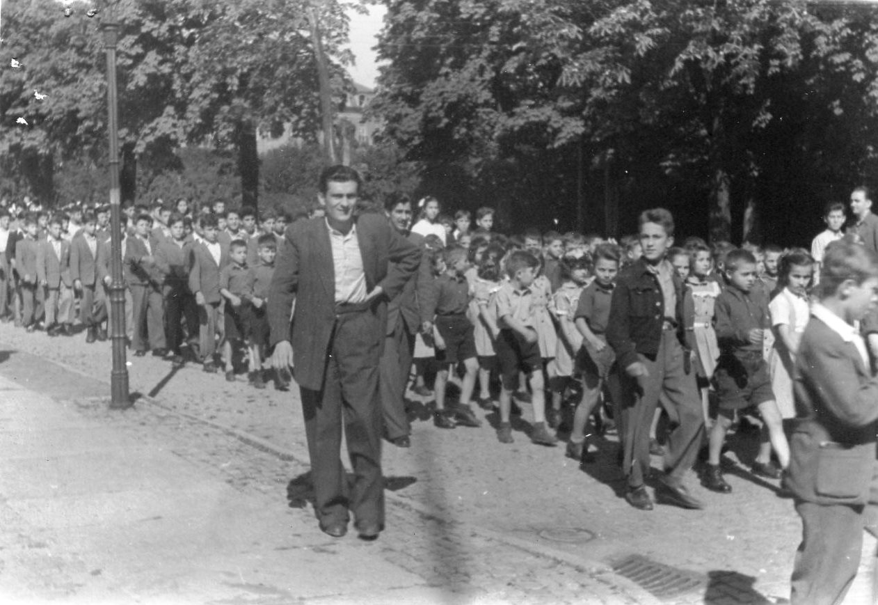 Children refugees in a children's shelves in Romania, September 11, 1949 This media file is produced by Wikipedian in Residence in Category:Wikipedian in Residence at DARM in 2016.